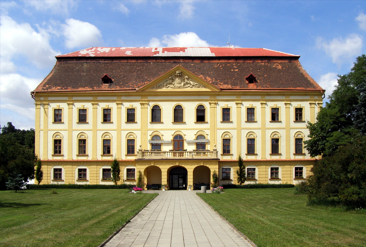 Myslibořice village. Castle by Jakob Prandtauer